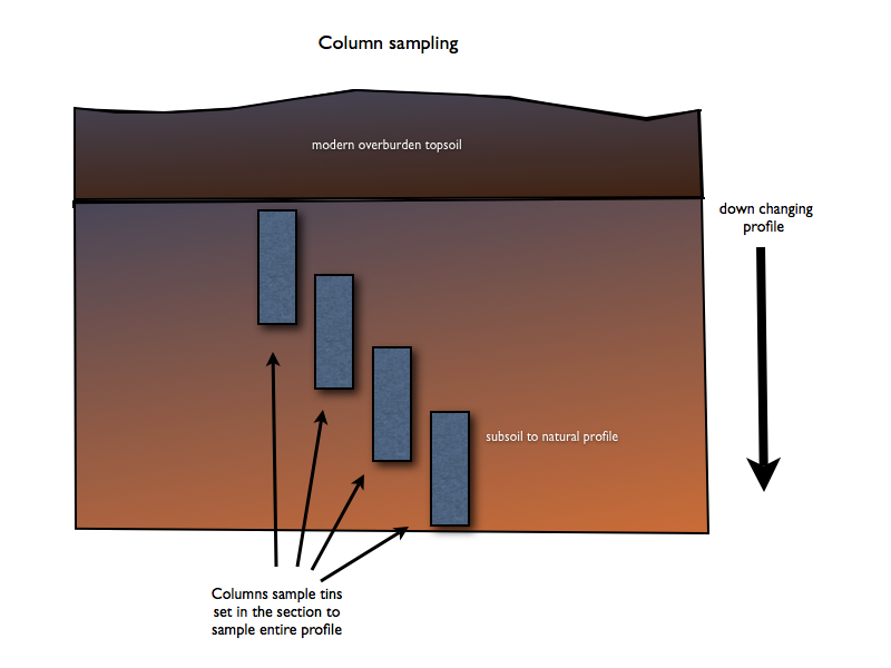 geoarch sampling